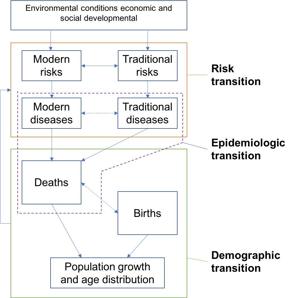 transition framework relations